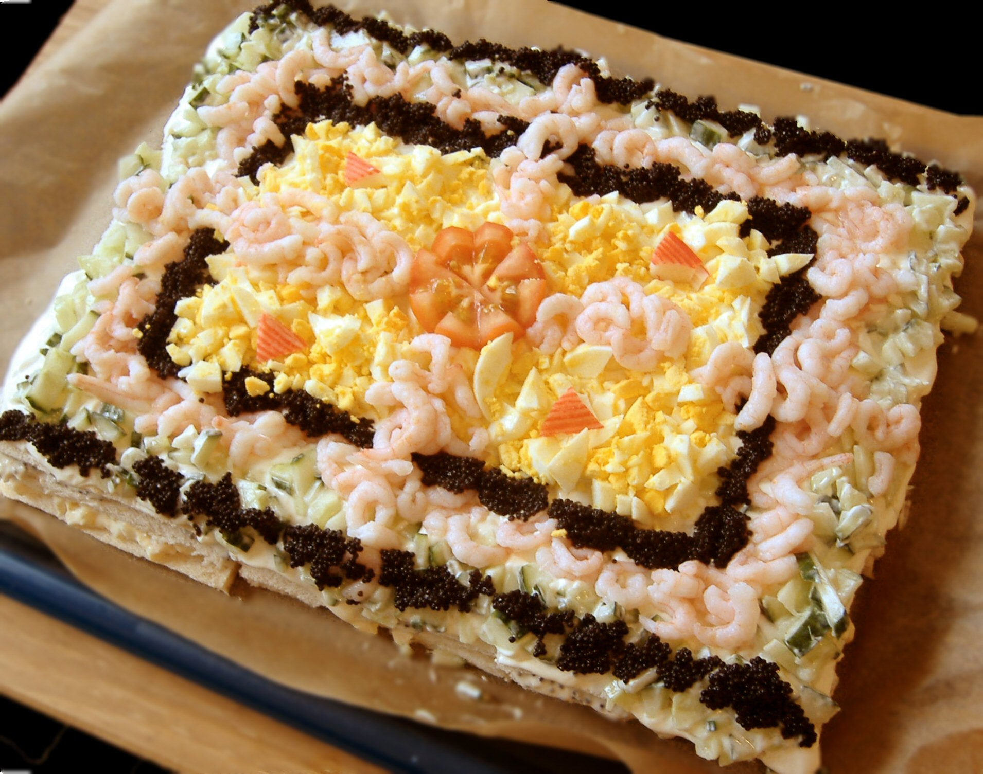 Smörgåstårta ("sandwich cake") garnished with prawns, egg, caviar and cucumber.